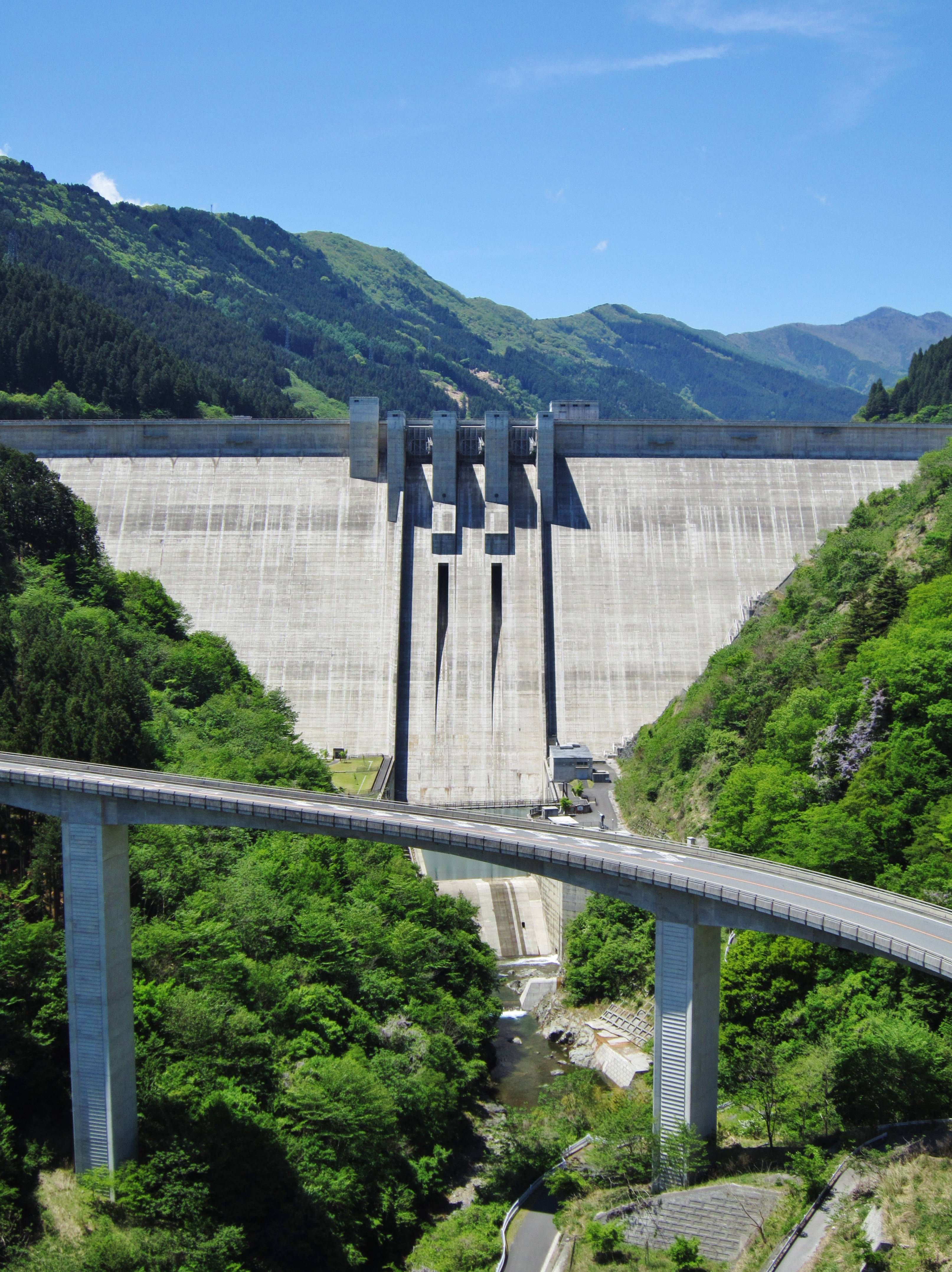 Takizawa Dam.